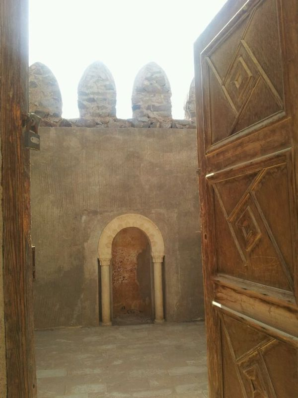 جزيرة فرعون